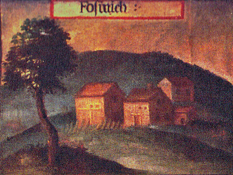 Fusenich in 1589